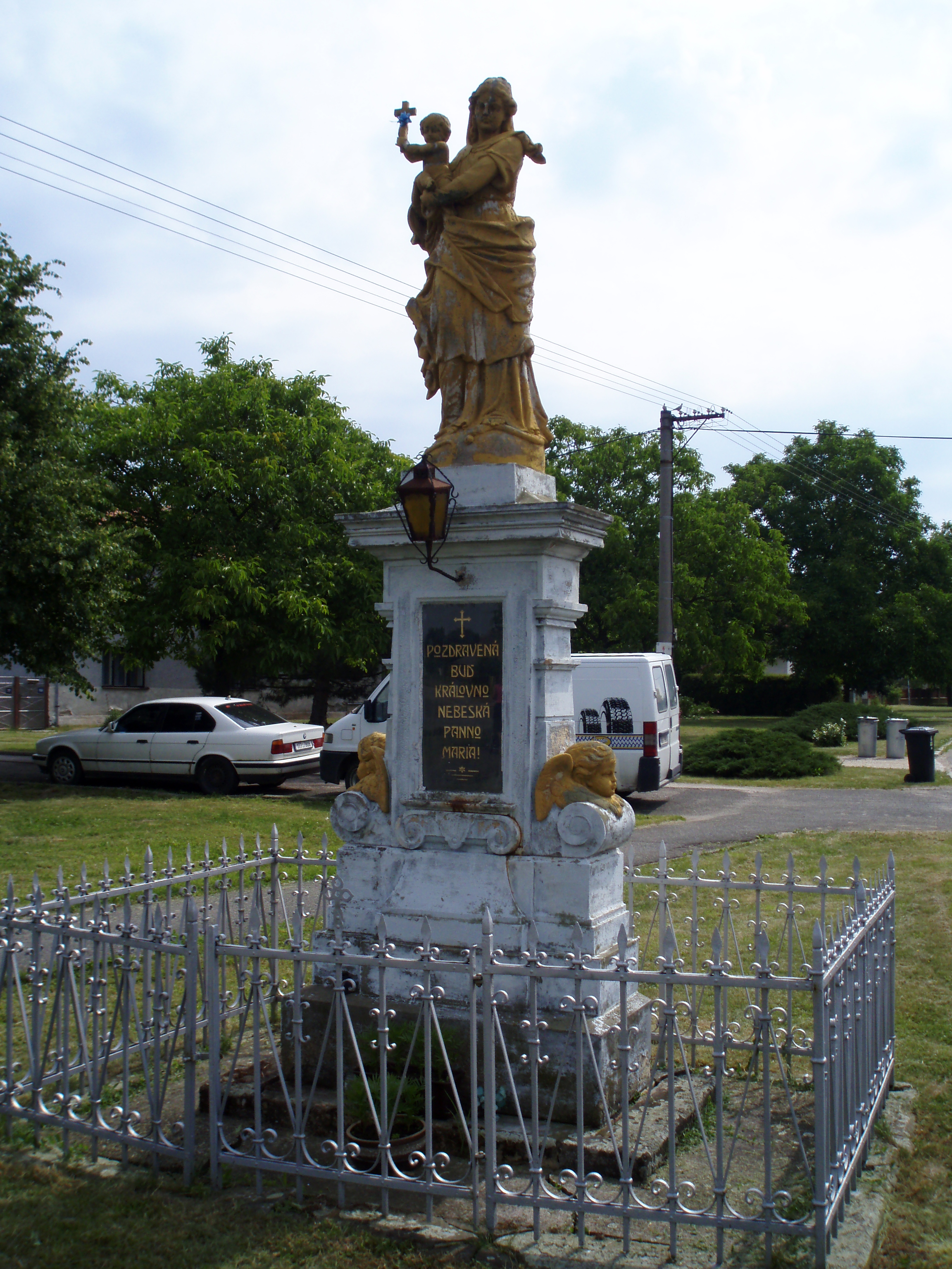 Vysoká nad Labem (District of Hradec Králové)